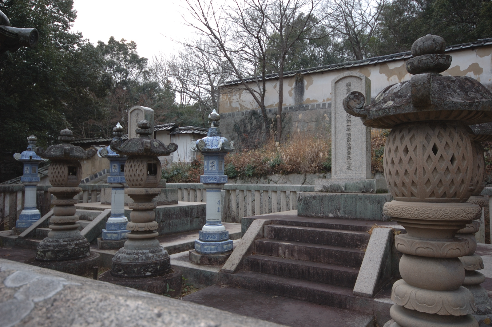 graves of the tenth(the last) Okayama feudal lord Ikeda Akimasa(right side) and his wife